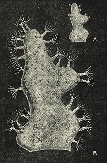 Alcyonidium gelatinosum (Linnaeus, 1761); Alcyonidiidae; A. a small piece, natural size B. the same, magnified